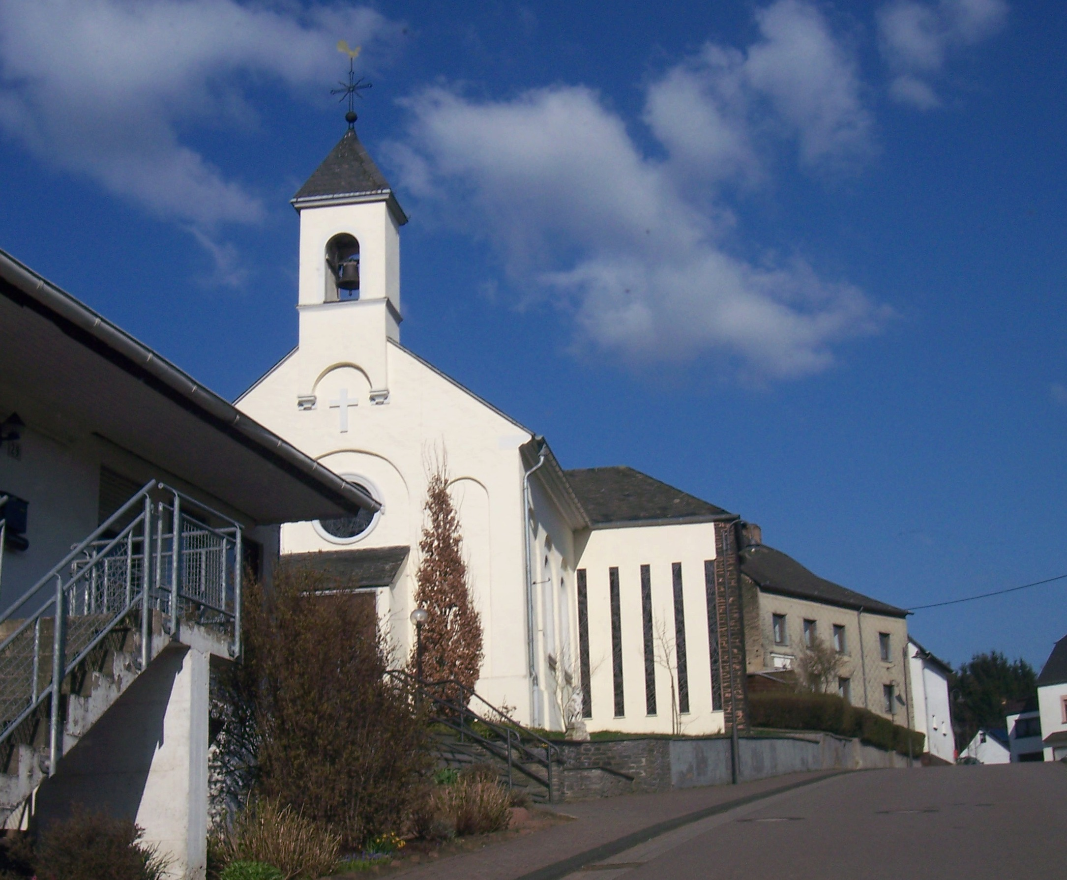 This image shows the little church of Franzenheim - a village in Landkreis Trier-Saarburg, Germany